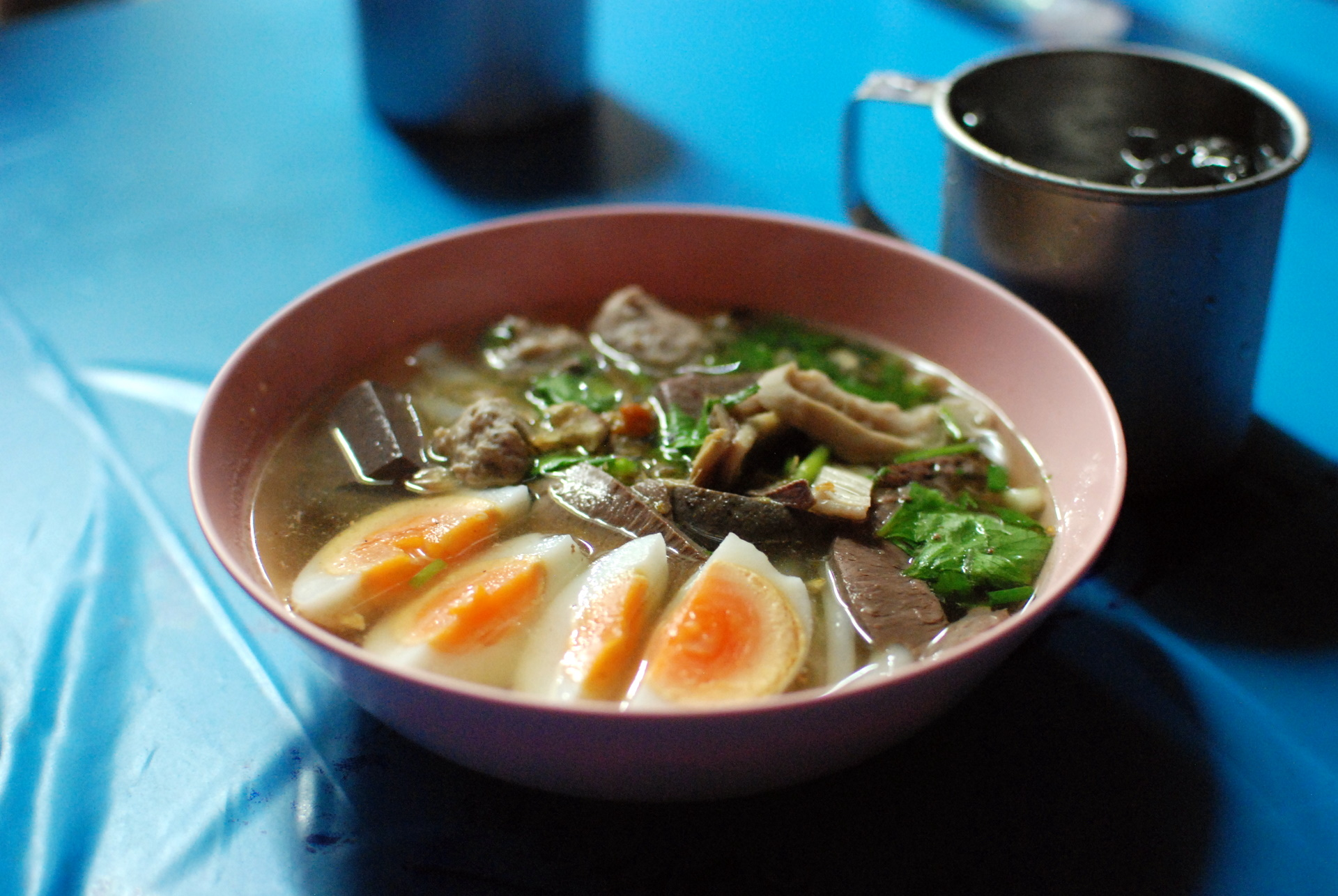 Kuaichap (Thai script: ก๋วยจั๊บ) is a soup of pork broth with rolled up rice noodle sheets (resulting in rolls about the size of Italian penne), pork intestines, "blood tofu", and boiled egg. It is of Teochew-Chinese origin.